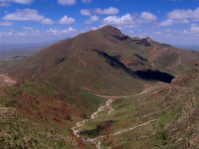 North Franklin Mountain, looking north from "The Elephant," a butte on the northern slope of South Franklin Mountain. Fusselman Canyon and Trans-Mountain Road are below.